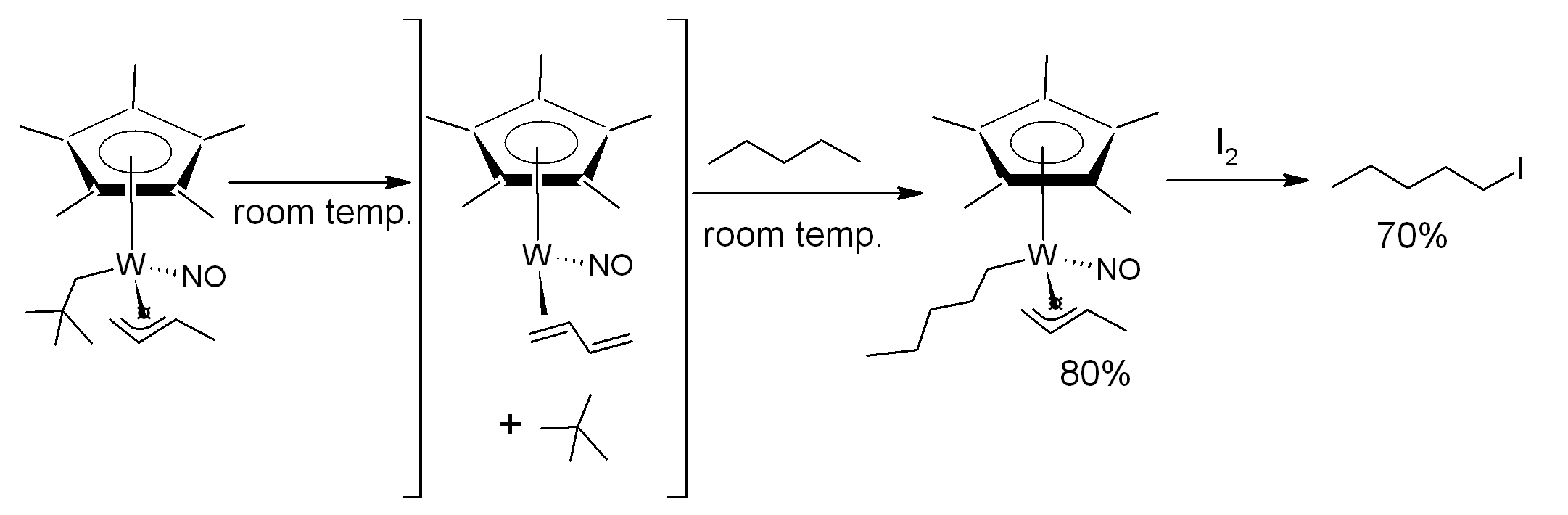 C-H activation of pentane, as seen in Ledgzdins et al., J. Am. Chem. Soc. 2007, 129, 5372-3.